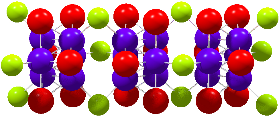 Structure of MoSI nanowire